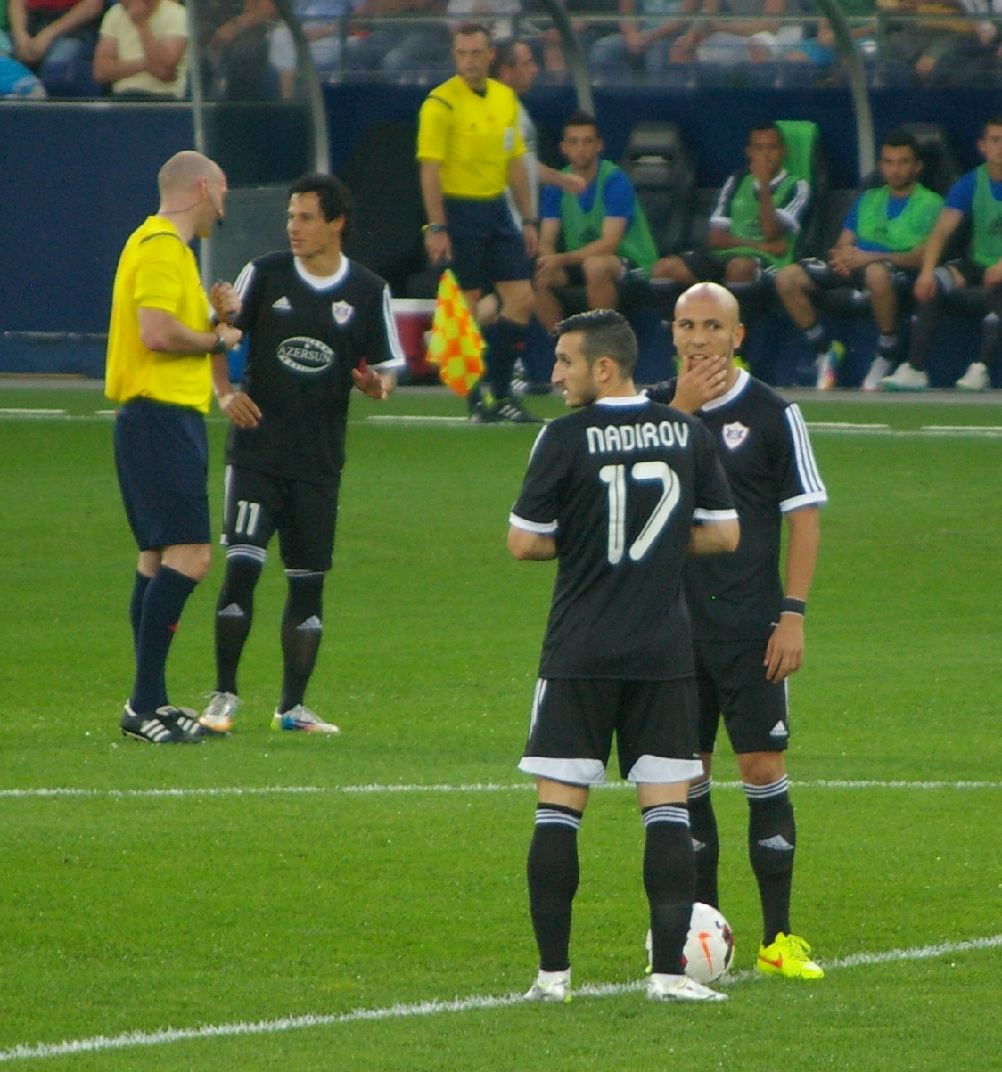 Championsleague Qualifier 3rd round